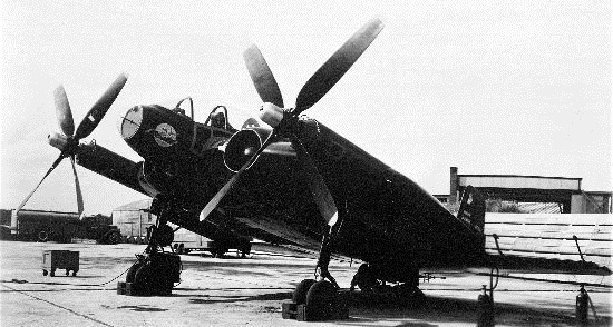 Vought XF5U-1 "Flying Flapjack" aka "Skimmer" prototype